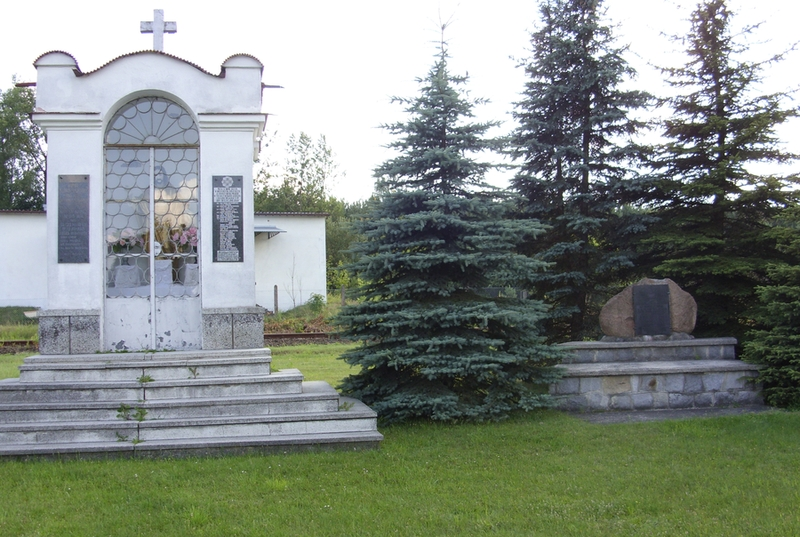 Chapel of the Sacred Heart of Jesus – Monument of Gratitude for the survival of Bełżec during World War II and next – a monument to the fallen soldiers of the Polish Army during the defense of Poland against German invaders during World War II, September 19, 1939 in Bełżec. Former military cemetery from the period of World War II and the German occupation in Poland in 1939-1945. At ul. Lwowska in Bełżec. "A monument of gratitude for the survival of Bełżec in the years of occupation: 1939 – 1944, and soldiers killed here" (an inscription on the commemorative plaque).